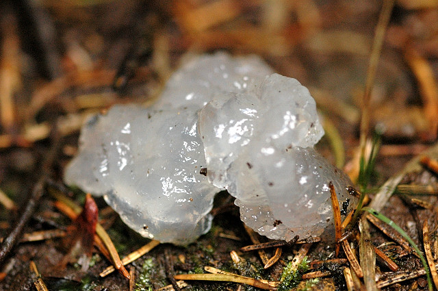 Perhaps star jelly from Commanster, Belgium. The determination of the species shown in this picture has been verified.